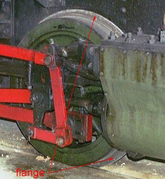 Flanged railway wheel.